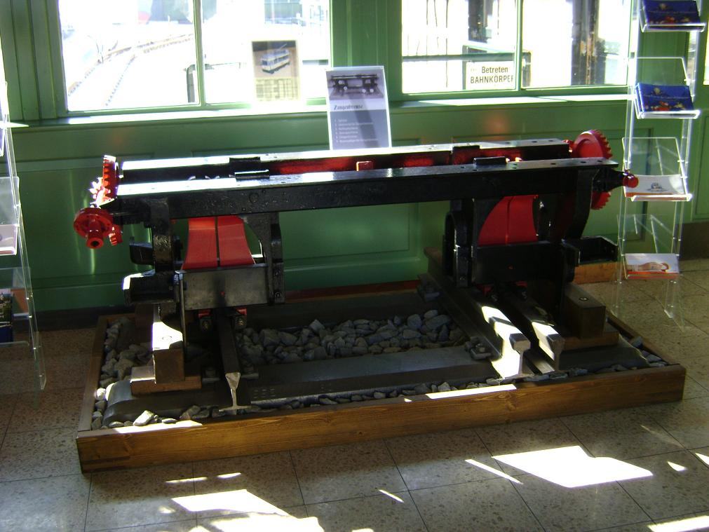 Tongs brake issued in the Pöstlingbergbahn museum in the valley station